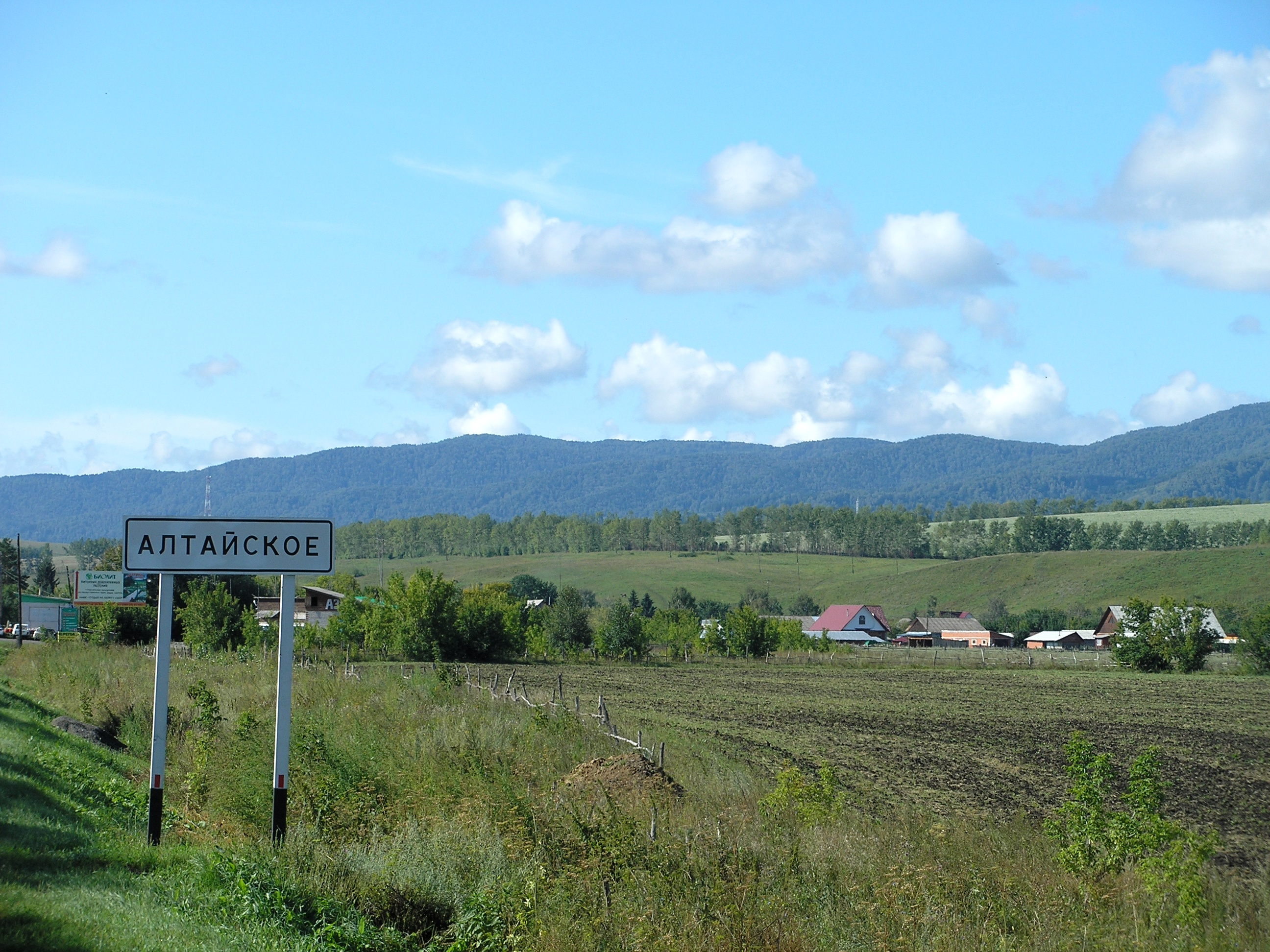 Altaiskoe village